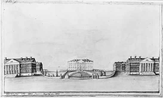 View of Washington City, 1820